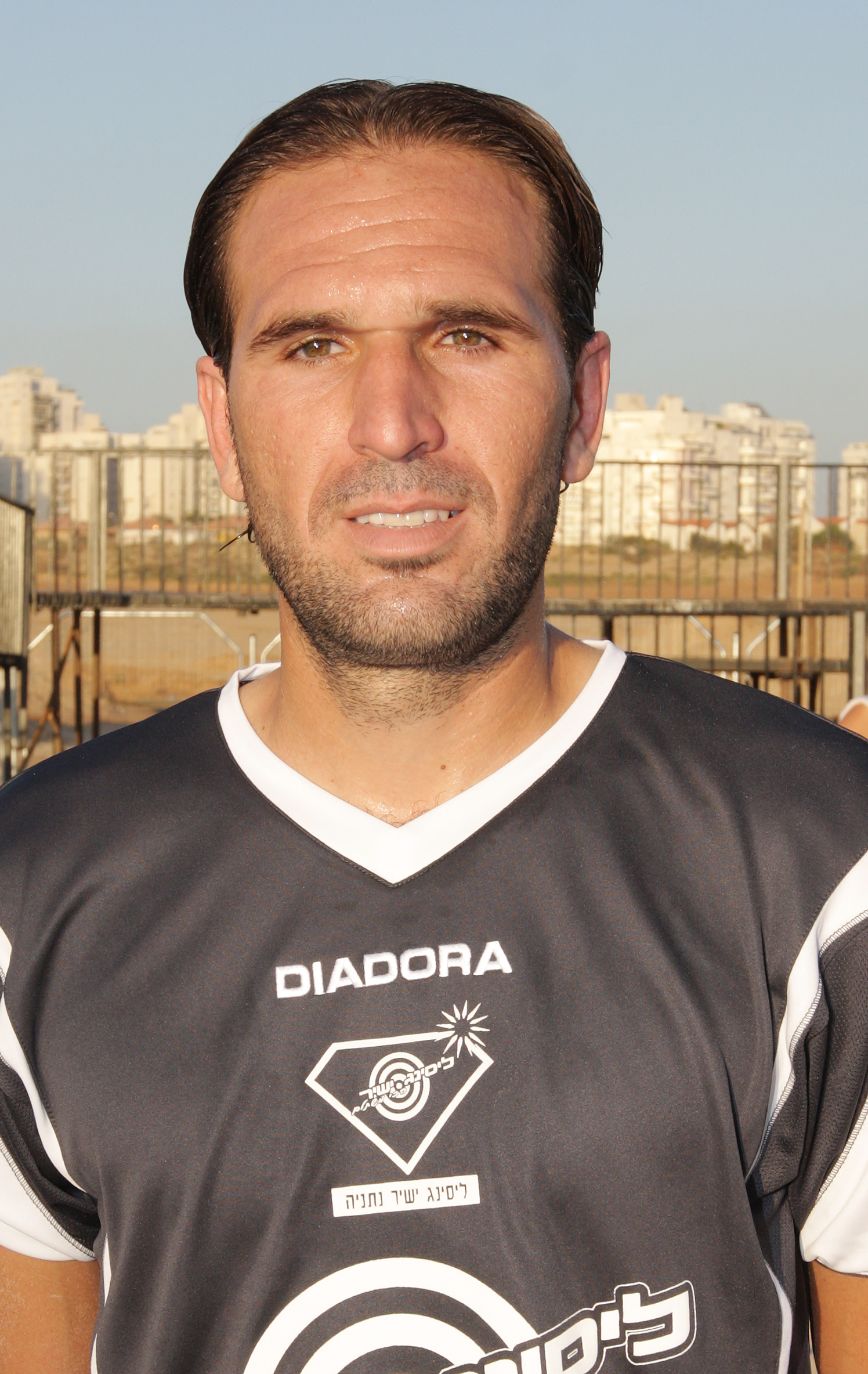 Israeli beach soccer team and Netanya Diamonds player, Tzahi Ilos.